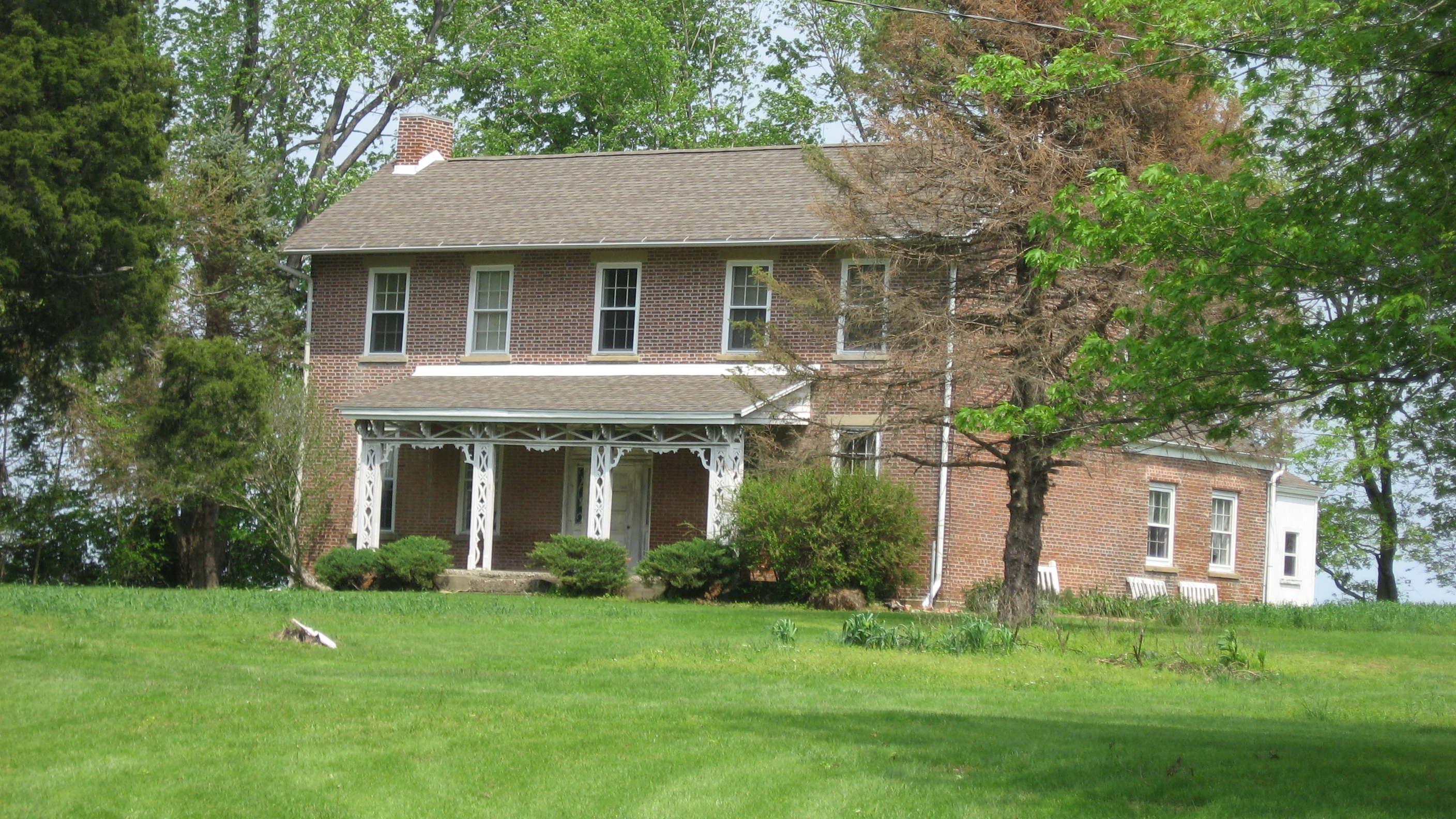 Front of the farmhouse at the Trippett-Glaze-Duncan-Kolb Farm, located along State Road 65 north of Princeton in Washington Township, Gibson County, Indiana, United States. Built in 1850, it and the rest of the farm are listed on the National Register of Historic Places.